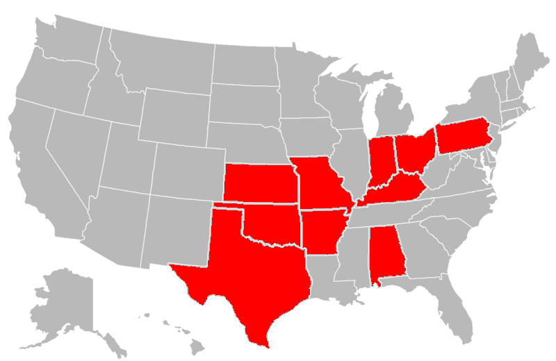 Used blank map of the United States and high-lighted states where Governors of Oklahoma were born.